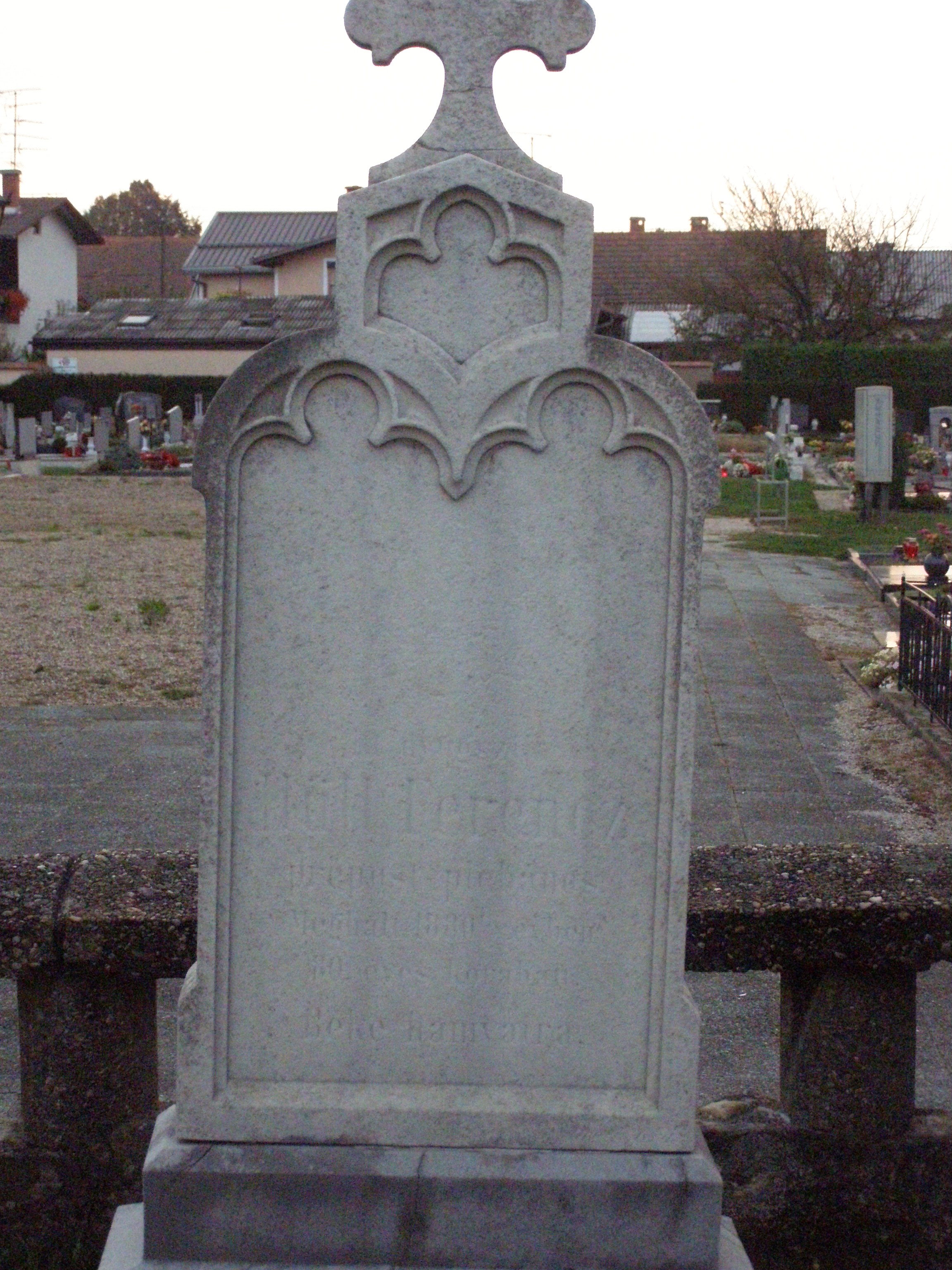 The grave of Ferenc Hüll (1880-1880) dean of Slovene Circumscription (Tótság), priest of Murska Sobota and writer. Murska Sobota cemetery